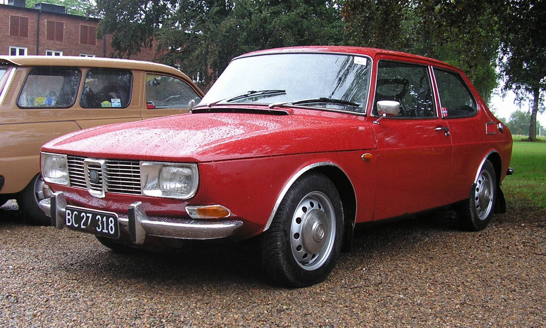 A 1969 SAAB 99 at the International SAAB Club Meeting 2006. Notice the smaller, low mounted indicator lights. Also notice the side repeaters that were fitted on cars in Denmark. Next to it is a 1978 Saab 95.